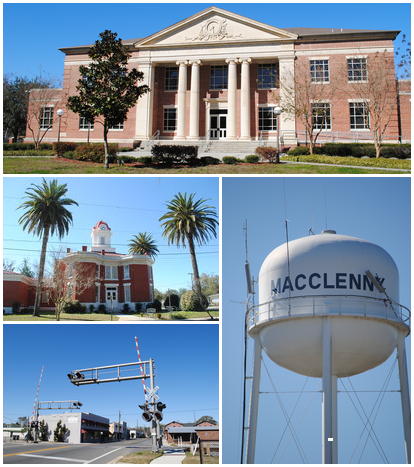 A collection of photos I took around Macclenny.